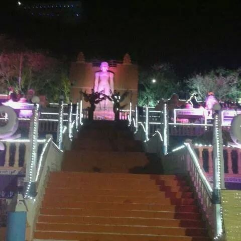 Bahubali statue on Mahamastakabhishek in Jan-Feb 2015